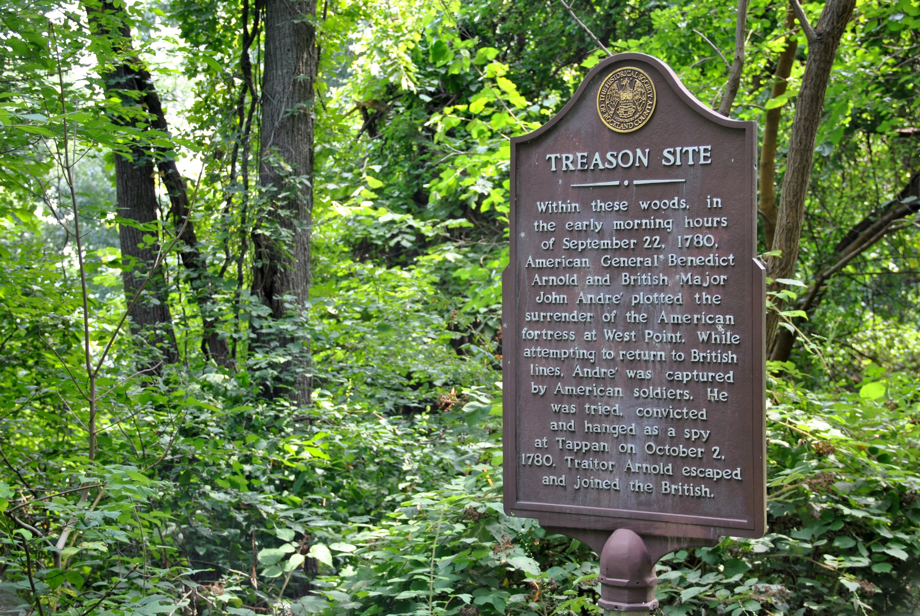 Location where American General Arnold and British Major John Andre plotted to surrender West Point. Located on the shore pathway south of Haverstraw in the historic Dutchtown area, 41.1779, -73.9434.